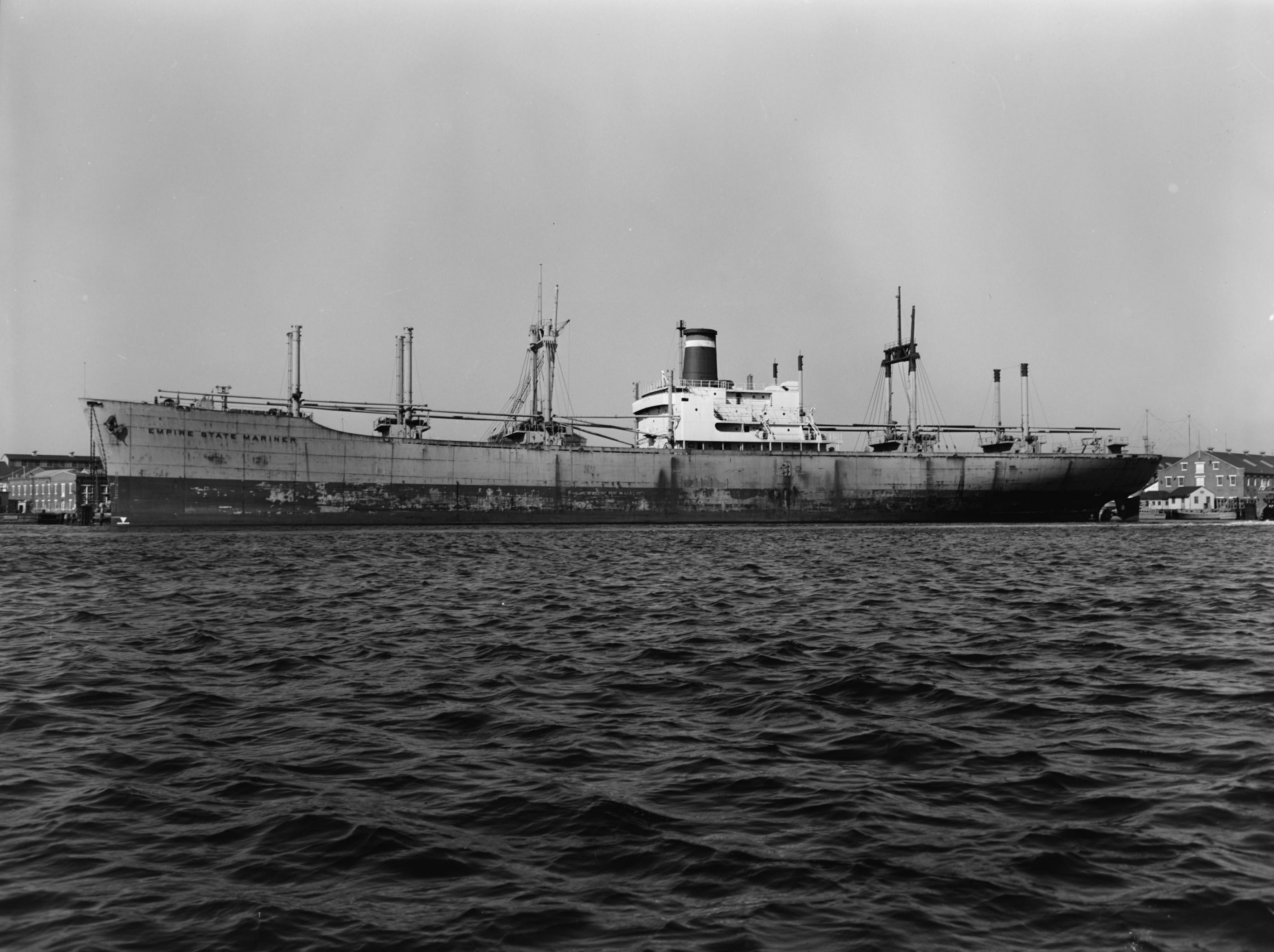 The cargo ship SS Empire State Mariner, circa 1954. The ship was deilvered in 24 February 1954 and three voyages for the U.S. Military Sea Transportation Service (MSTS) before lay being laid up on 9 November 1954. It was acquired by the U.S. Navy on 10 September 1956 and converted to the auxiliary USS Observation Island (E-AG-154). The ship was commissioned in December 1958 and used in the "Polaris" missile program. It was decommissioned in 1972 but in 1977 again converted to a Range Instrumentation Ship for the Military Sealift Command (MSC) as USNS Observation Island (T-AGM-23). It was finally deactivated on 25 March 2014.